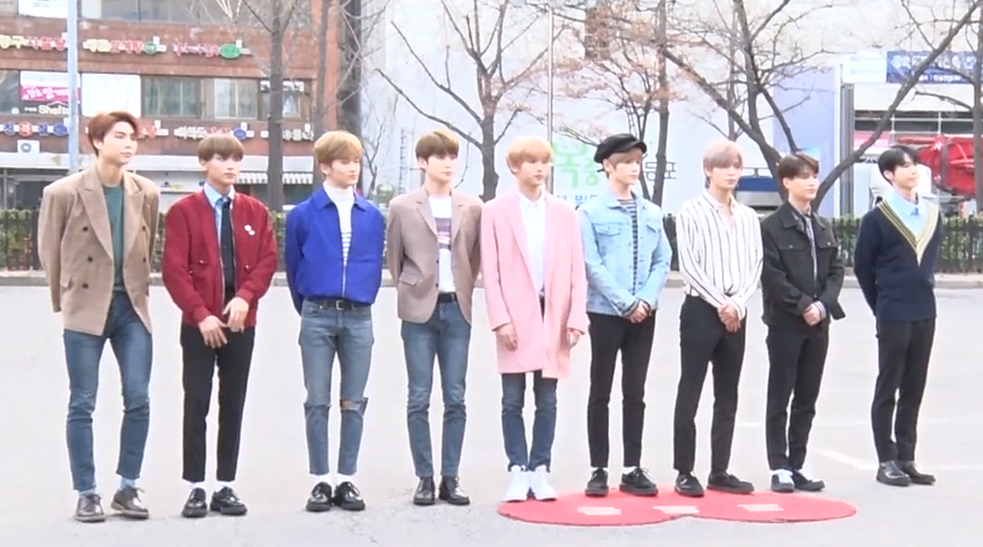 NCT 127 going to a Music Bank recording on March 30, 2018.